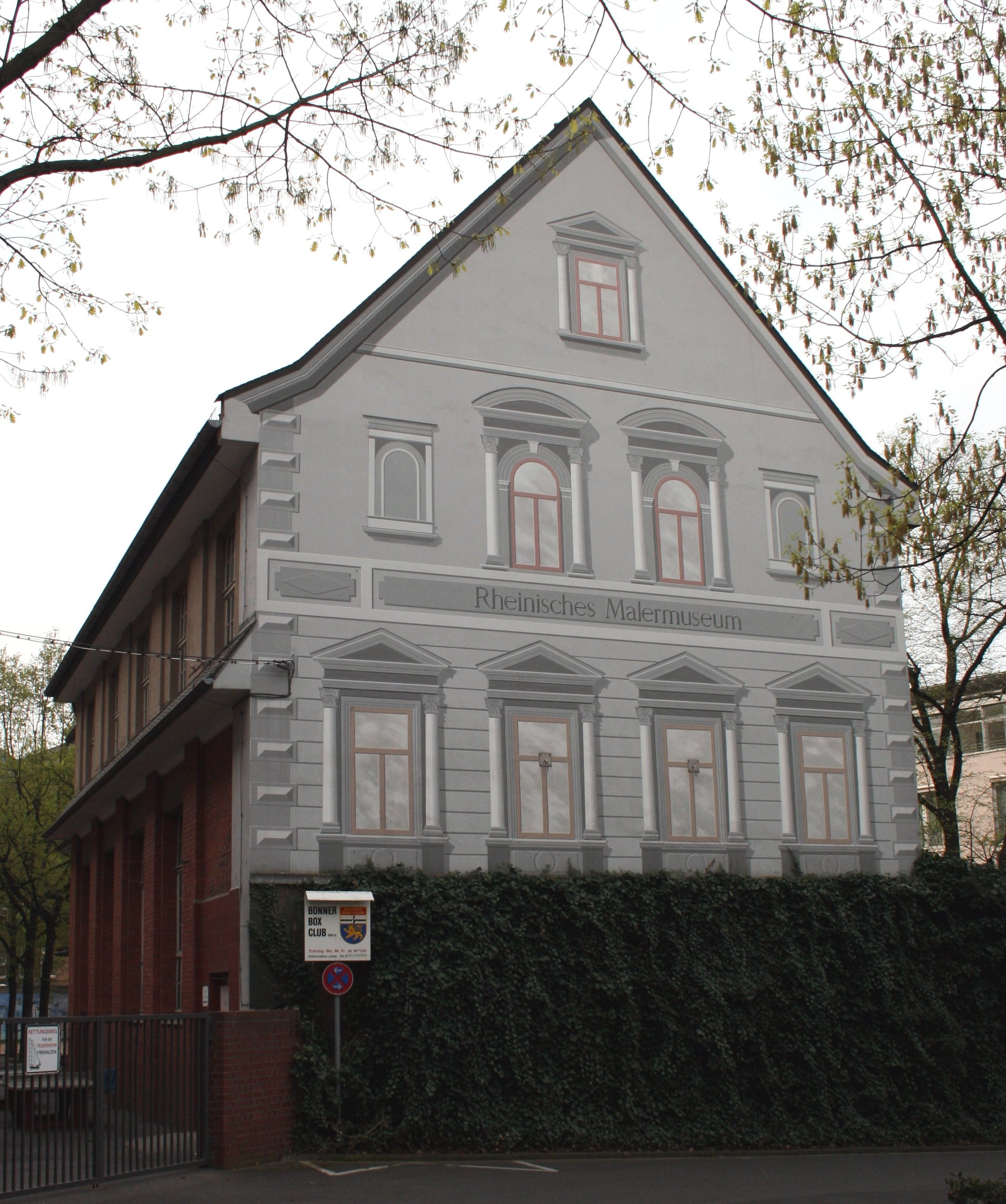 Bonn, Germany: facade of the rhenish museum of painters.